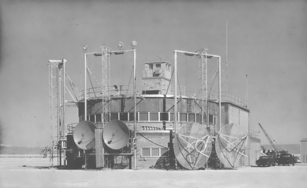 Frontal view of the RATSCAT operations building showing the antenna mounting towers